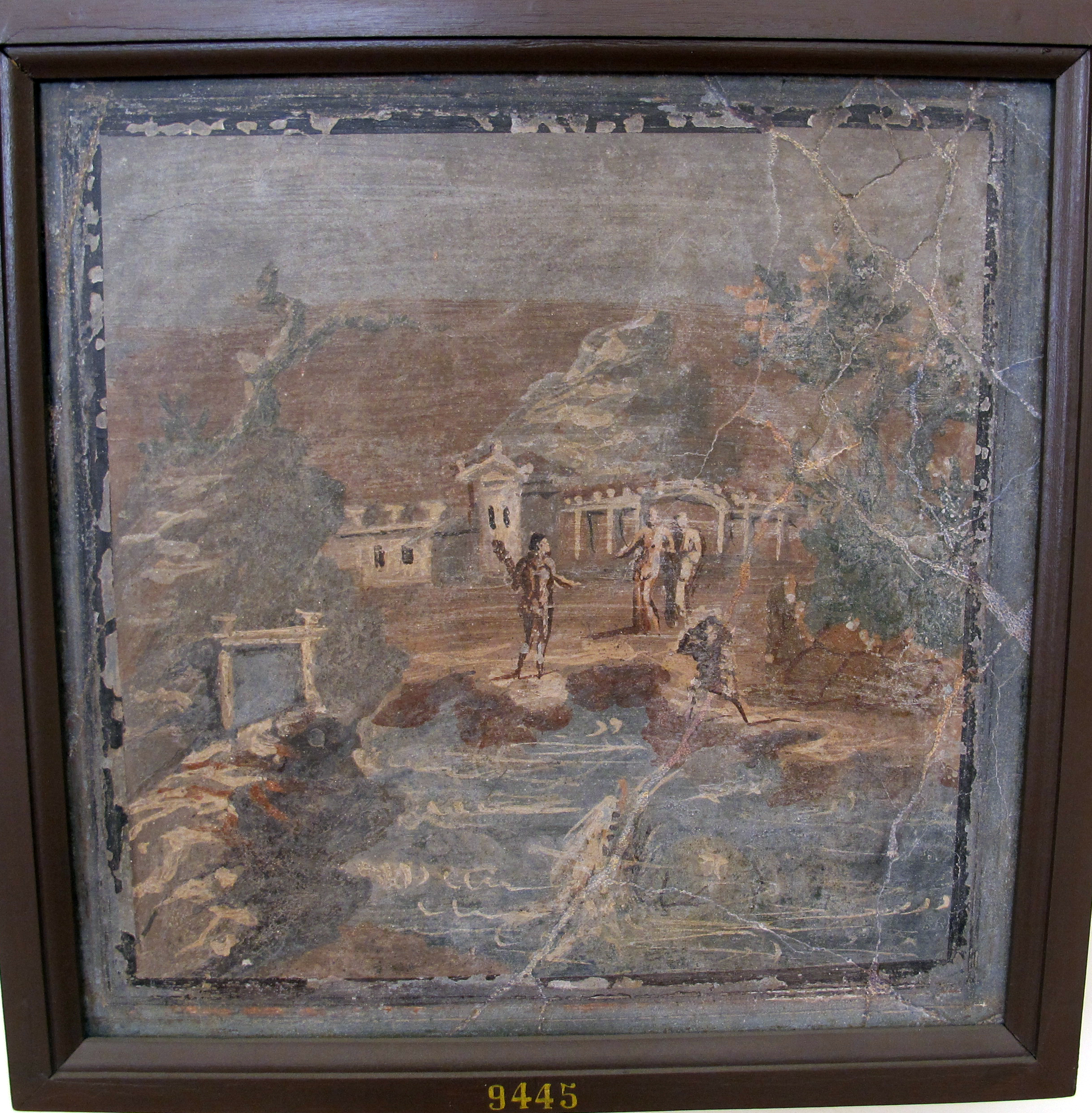 Ancient Roman frescos in the Museo Archeologico (Naples)